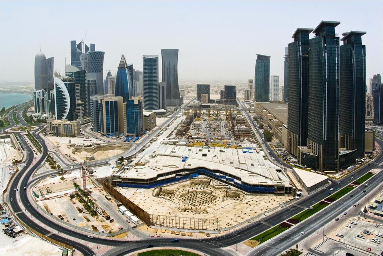 DOHA CORNISH JUNE 07 2011